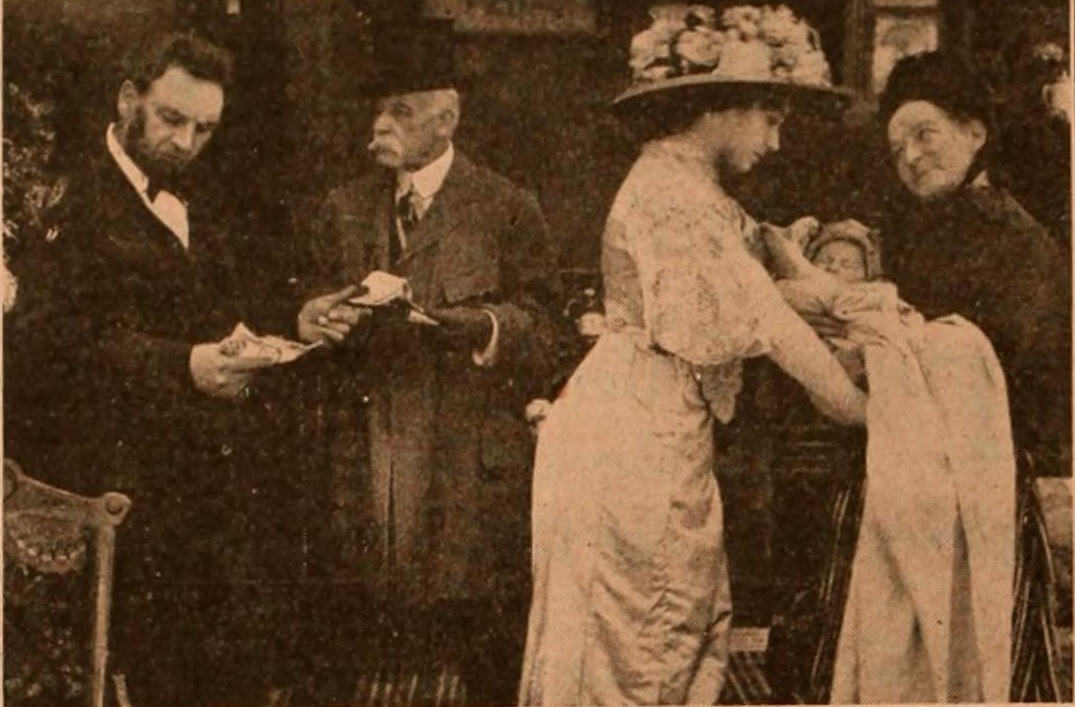 A surviving film still from The Childhood Of Jack Harkaway from the Thanhouser Company. Released in 1910, the only known print is in a severe state of decay. The actors have not been identified, but this scene is presumed to show the adoption of baby Jack Harkaway to his foster family.